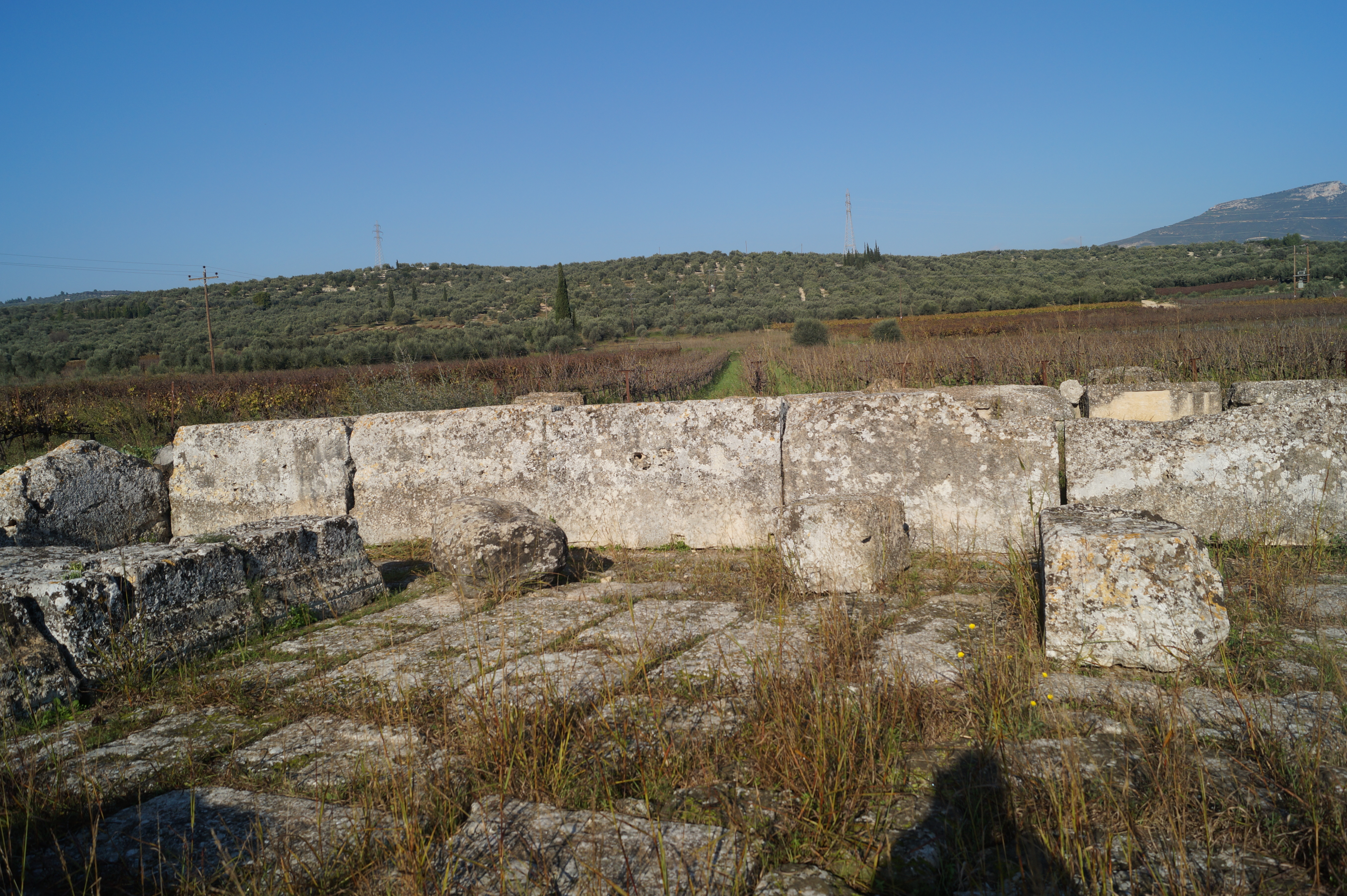 Archaies Kleones, Corinthia, Greece: Temple of Hercules at Cleonae, view from east on the cella. In the middle there is the only part of the cult statue found in the temple.